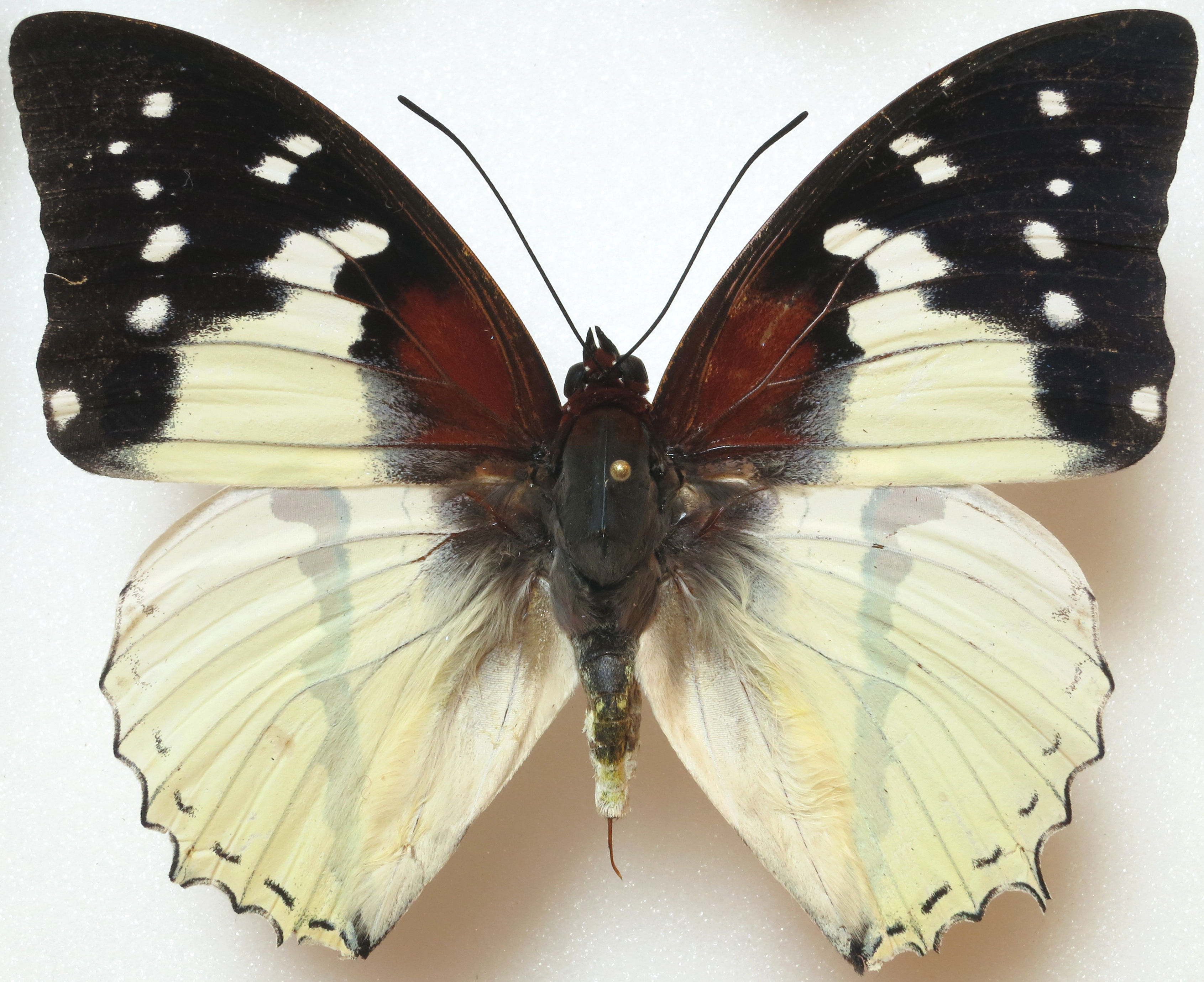 Charaxes hardianus male from Bouoko, CAR